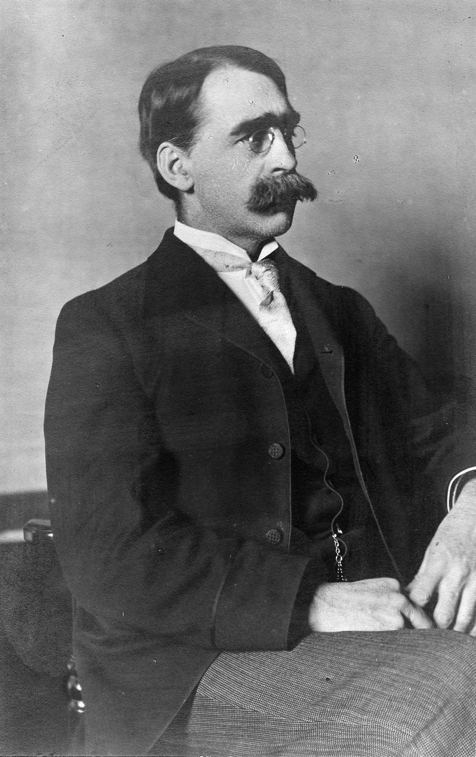 Portrait of Wiggins, painter, seated. Identification on verso (handwritten): Carleton Wiggins; A.N.A.